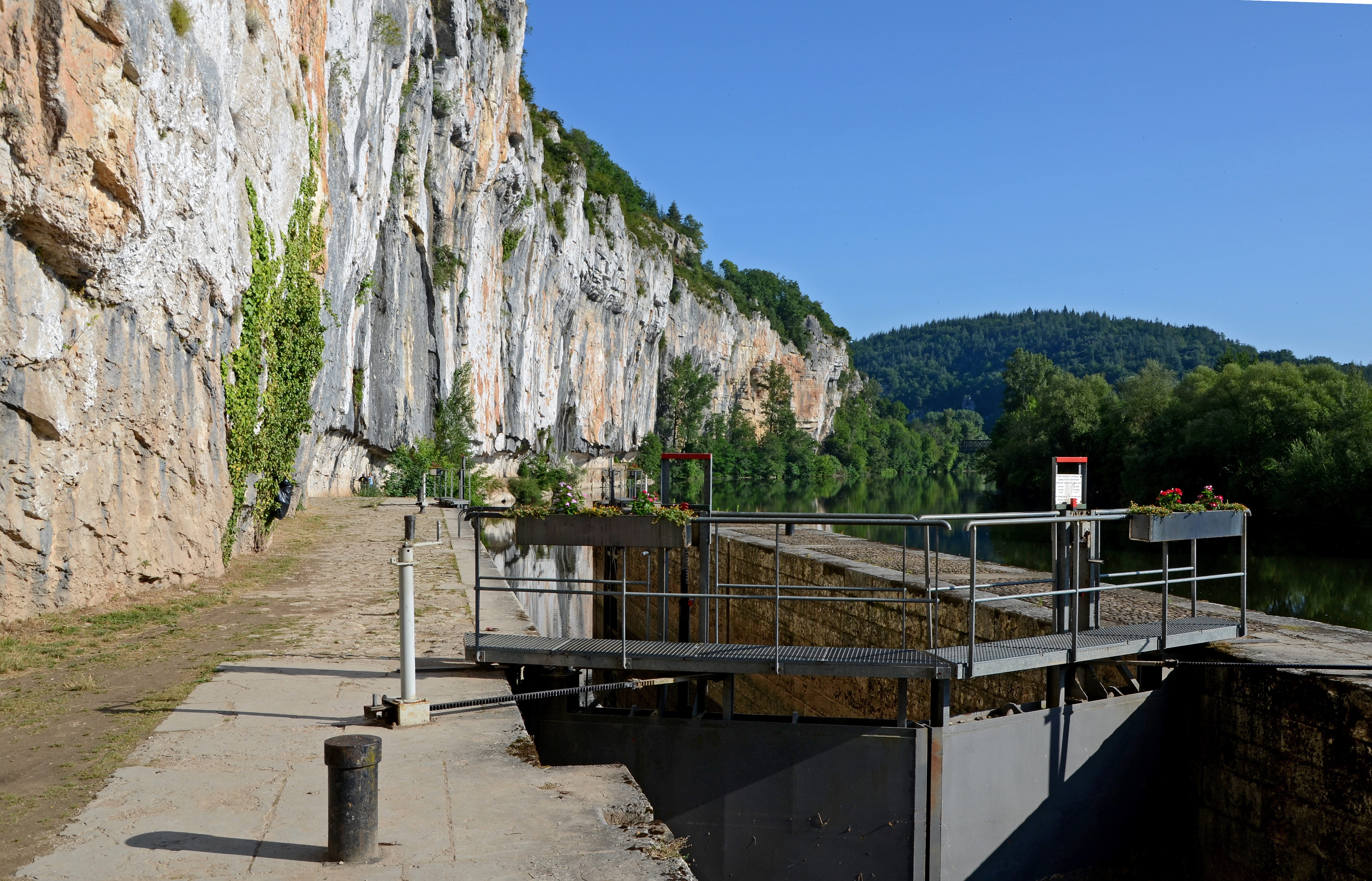 Lock and towpath on the river Lot near Saint-Cirq Lapopie, Lot, France